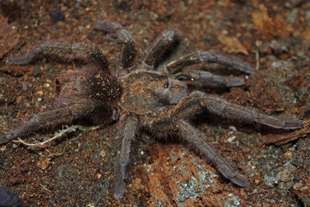 Found under a log near a small river outside of Gibara, Holguin. I'm not certain of this identification, but this seemed like the best fit for the locality and appearance.